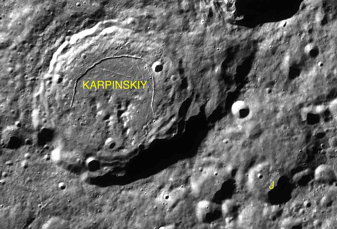 Part of the chart LAC-7 used for the presentation